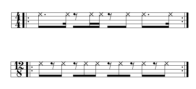 standard pattern in 4/4 and 12/8 forms